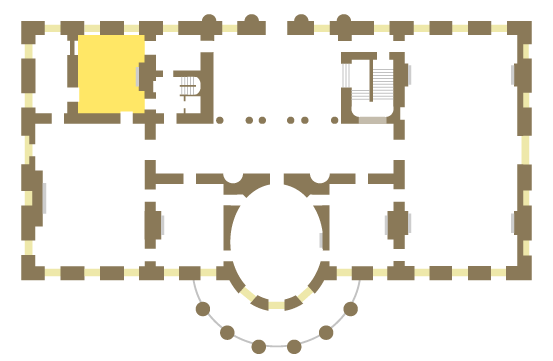 White House State Floor showing location of the Family Dining Room. 23.02.07, Jim Hood.